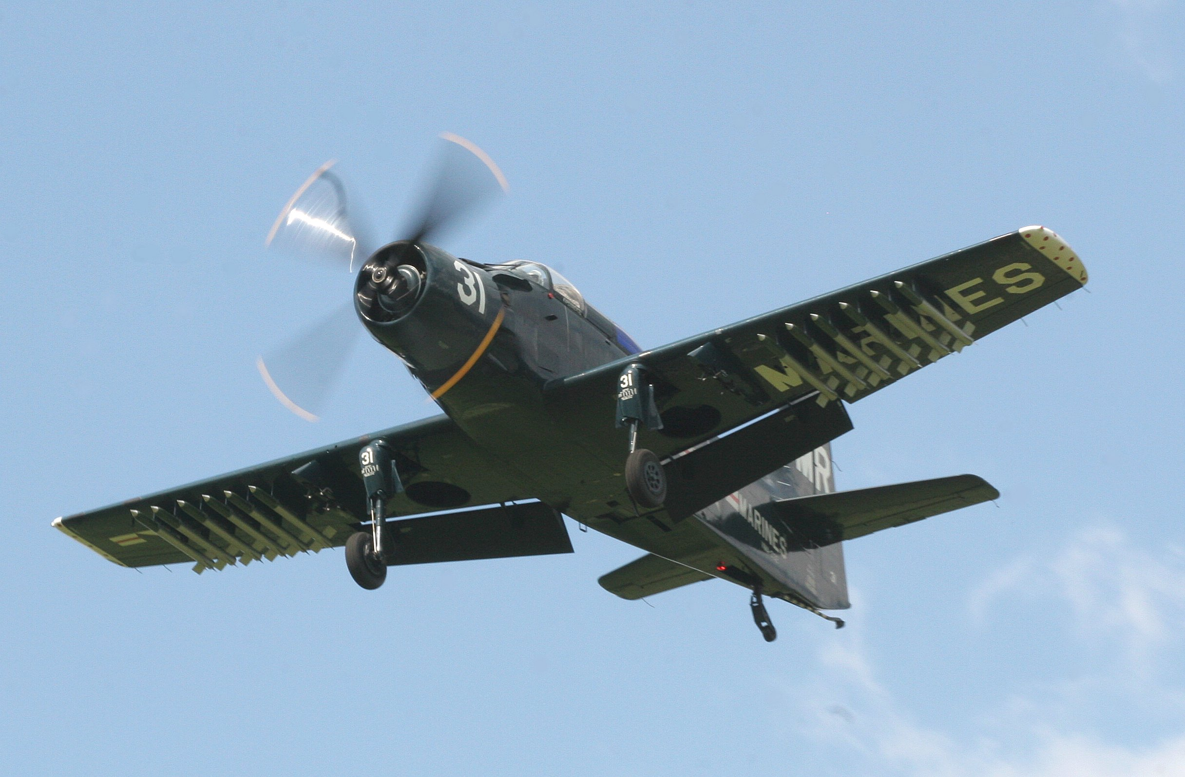 A skyraider landing at the Thunder Over Michigan Air Show, August, 2006.